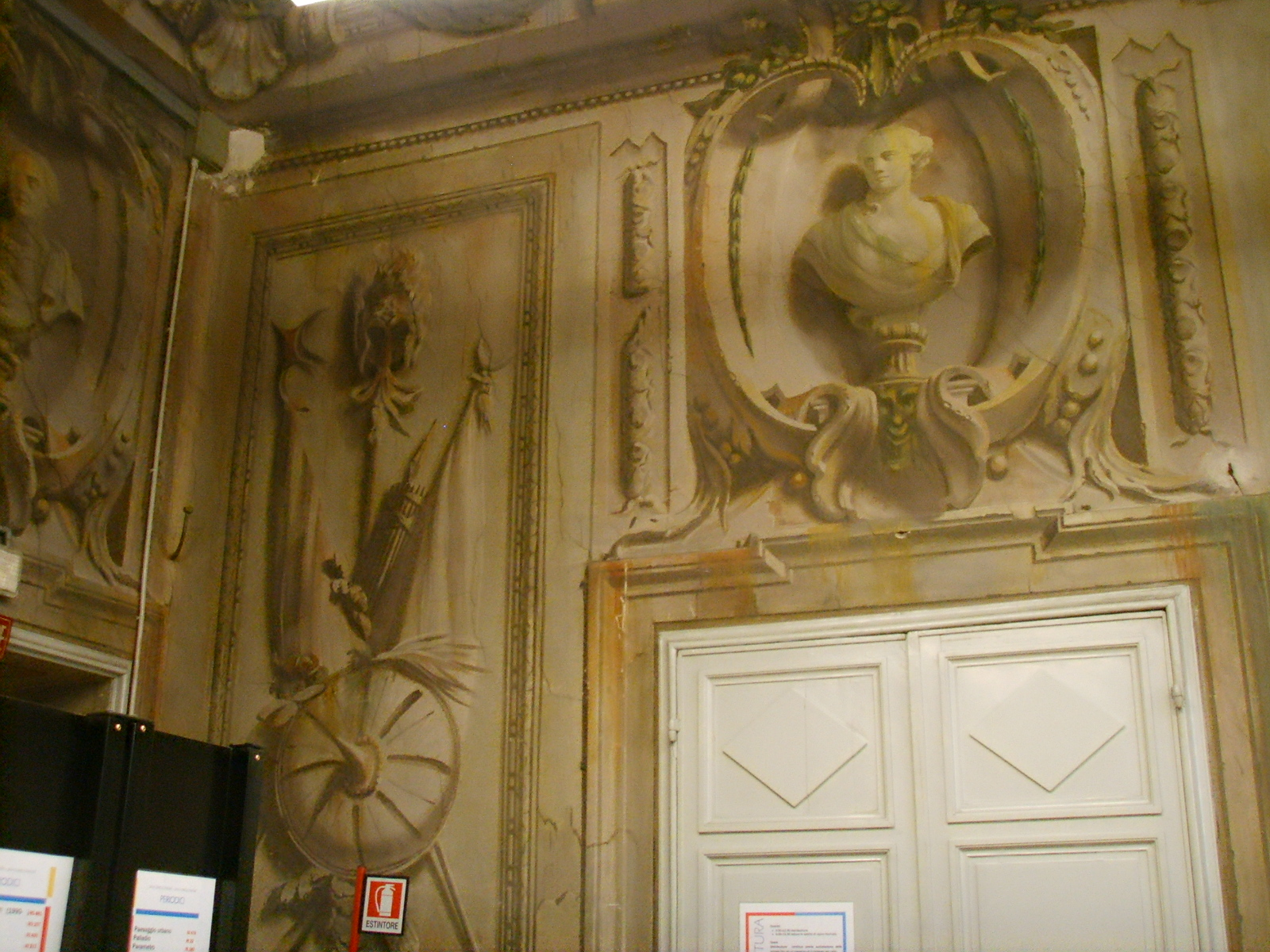 Palazzo_di_San_Clemente,_ library frescoed rooms. See filename for room ref. number Frescos of XVIII century by unknown author(s) in Florence